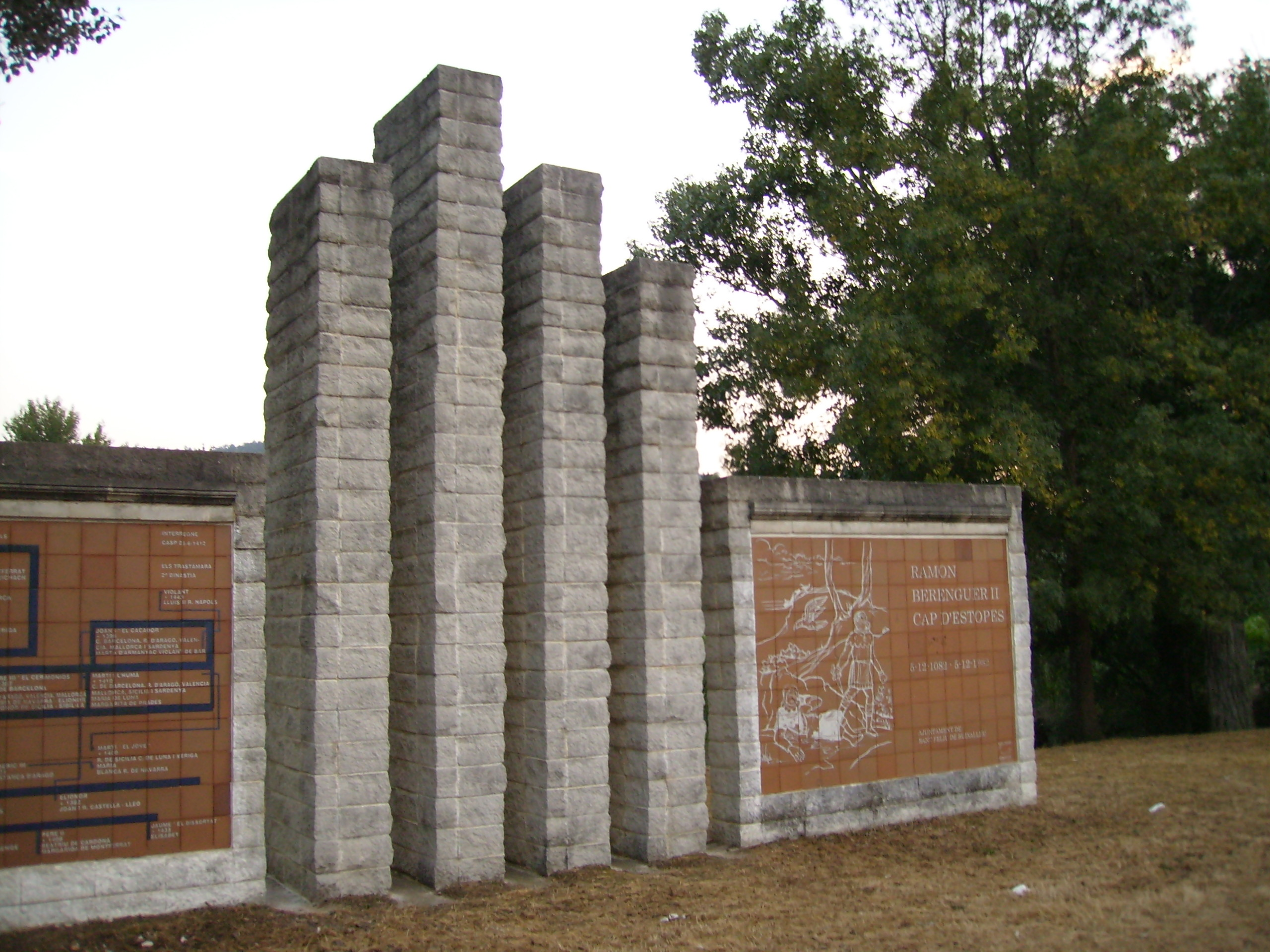 Monument for Earl Ramon Berenguer II (Cap d'Estopes) in Sant Feliu de Buixalleu (Catalonia)